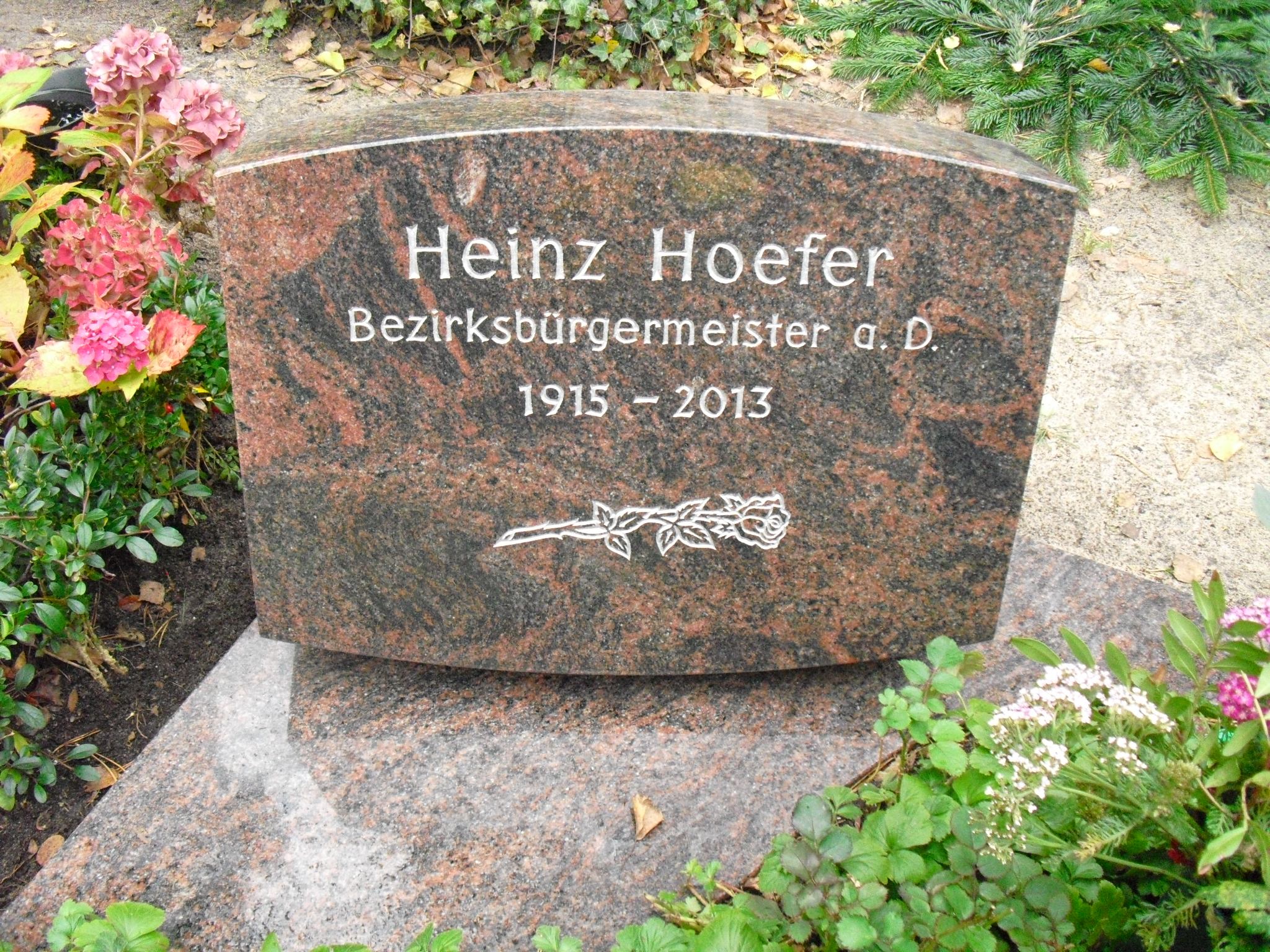 Grave of Berlin mayor Heinz Hoefer in Friedhof Heerstraße in Berlin-Westend